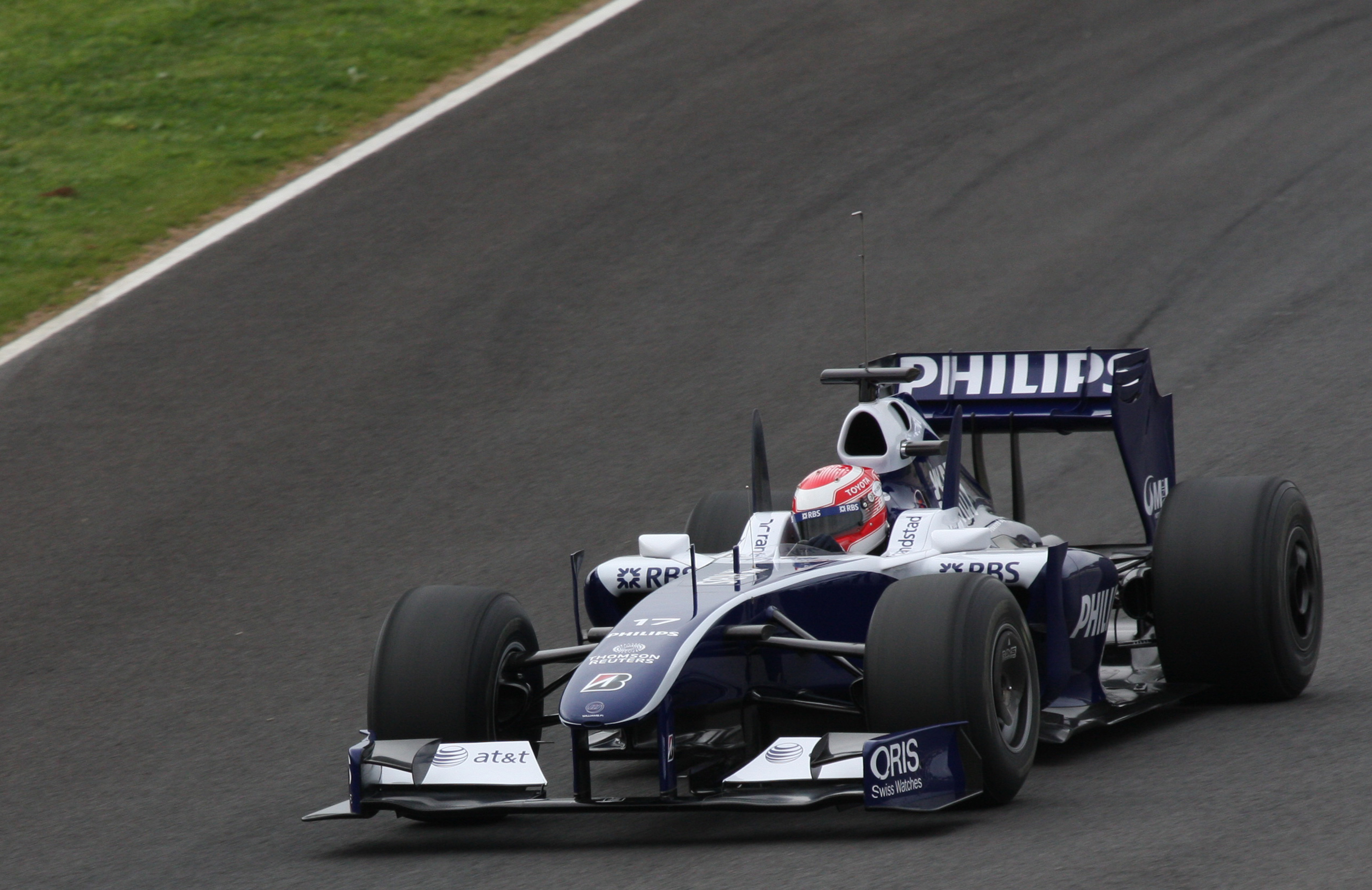 Kazuki Nakajima in the Williams FW31, F1 testing session, Jerez 4-Mar-2009